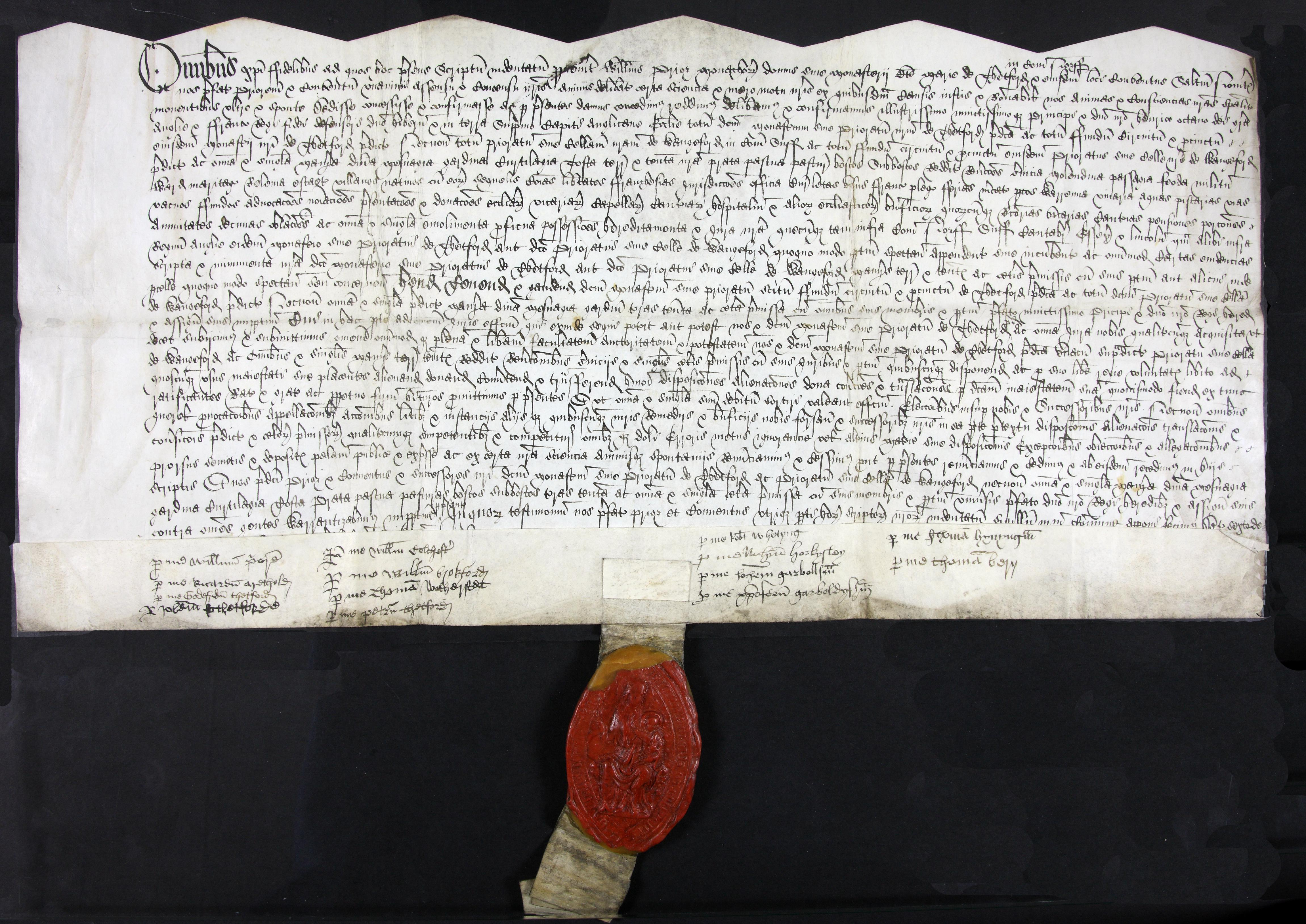 Over the course of the Dissolution of the Monasteries, England and Wales changed beyond recognition. Over 800 religious houses were closed, their lands given to private owners and many monks and friars who resisted were executed. At a time where one in five men had taken religious orders, this was a major upheaval of everyday life for the whole population. Even Thetford Priory in Norfolk, where Henry VIII’s own illegitimate son Henry FitzRoy had been buried four years previously, could not escape the dissolution becoming one of the last religious houses to close in February 1540. This deed, signed by the monks of the house, shows the priory’s seal depicting the Virgin Mary to whom the priory was dedicated.